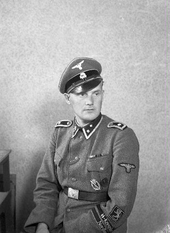 Photograph of the Finnish writer Jukka Tyrkkö (1912–1979) during World War II.